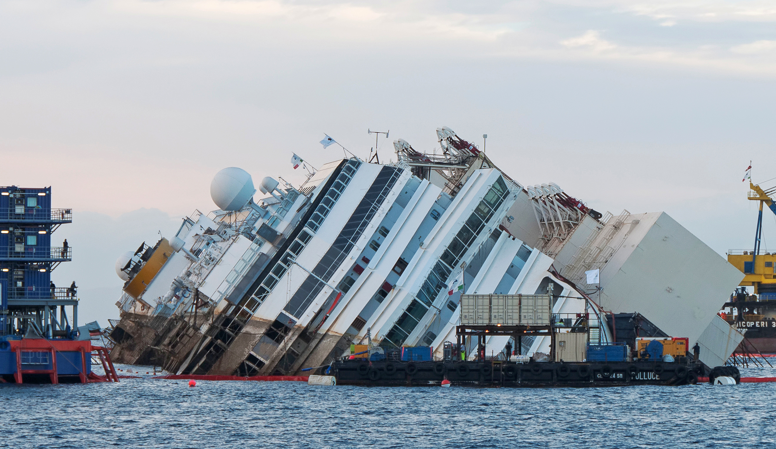 The operation continue but very slow... only less 2 degrees per hour